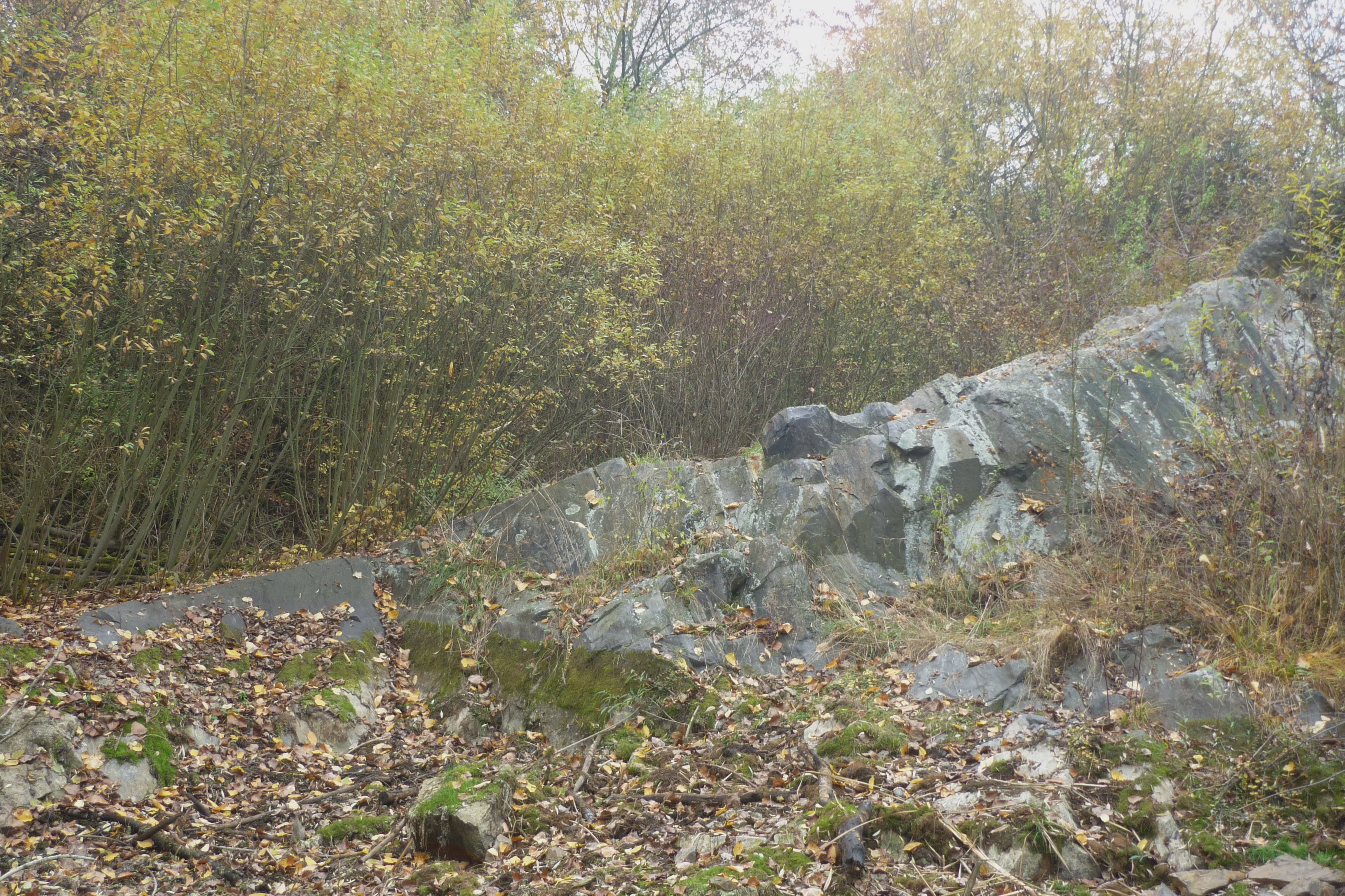 Stone guarry near Starkoc in natural monument Starkočský lom in Kutná Hora District, Czech Republic